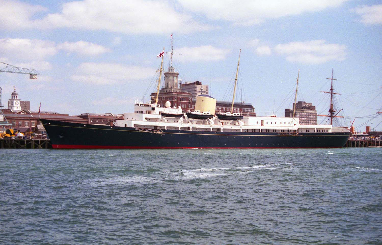 Royal Yacht Britannia The Royal Yacht Britannia was in Portsmouth for the 50th D-Day anniversary. It is now a tourist attraction in Leith, Edinburgh.